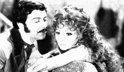 Italian actors Luciano Melani and Manuela Kustermann on stage